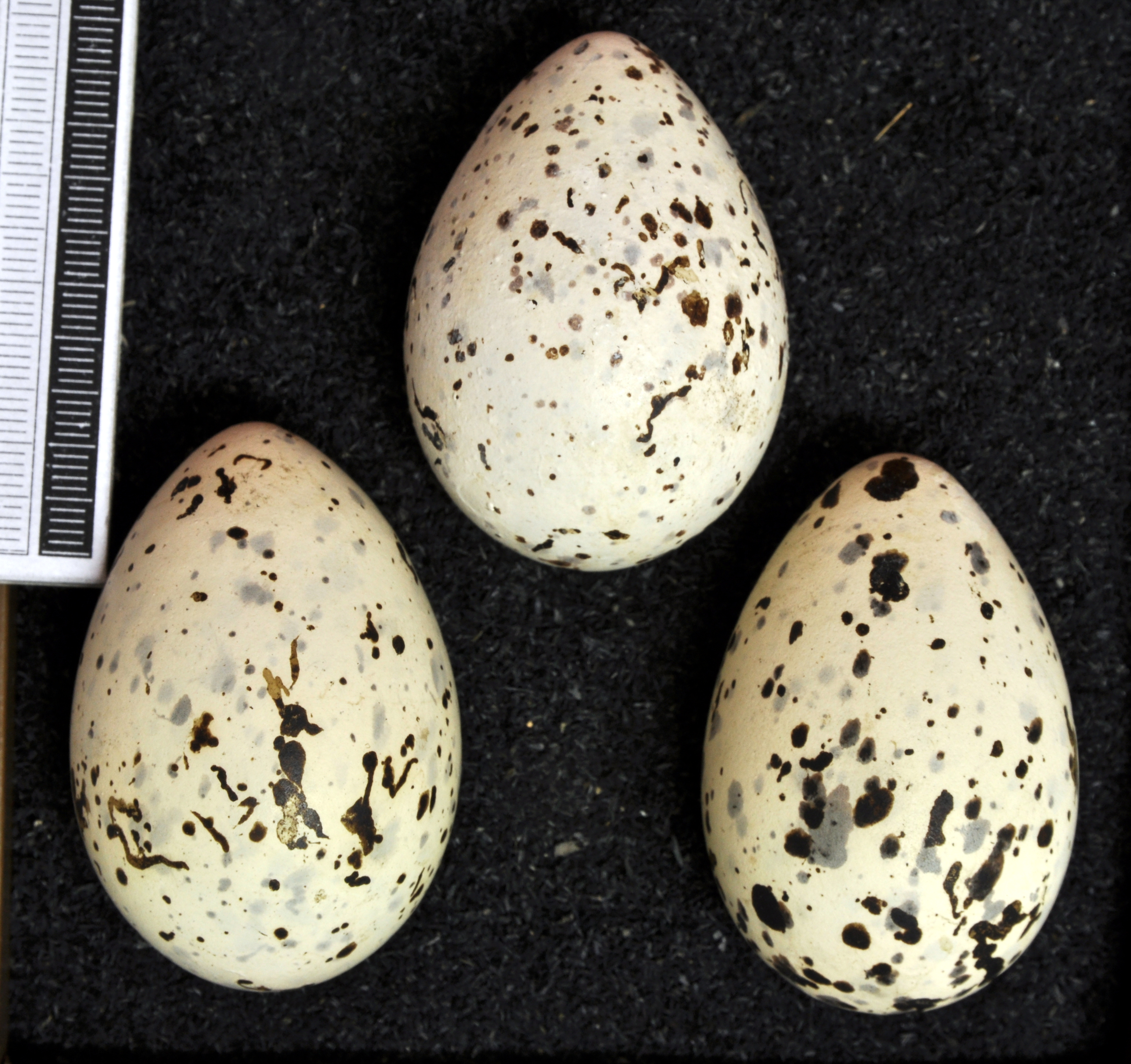 Sandwich tern Sterna sandvicensis , egg, Coll. Museum Wiesbaden